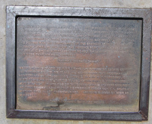 Old 1922 plaque. Fordsburg Square is a thriving square that is the site of a flea market was recently known for being run-down and it was the location of a battle between striking miners and the South African police, army and air force.